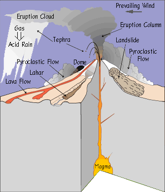 A schematic diagram of processes that occur during a volcanic eruption, many of which can cause problems for those who live nearby.